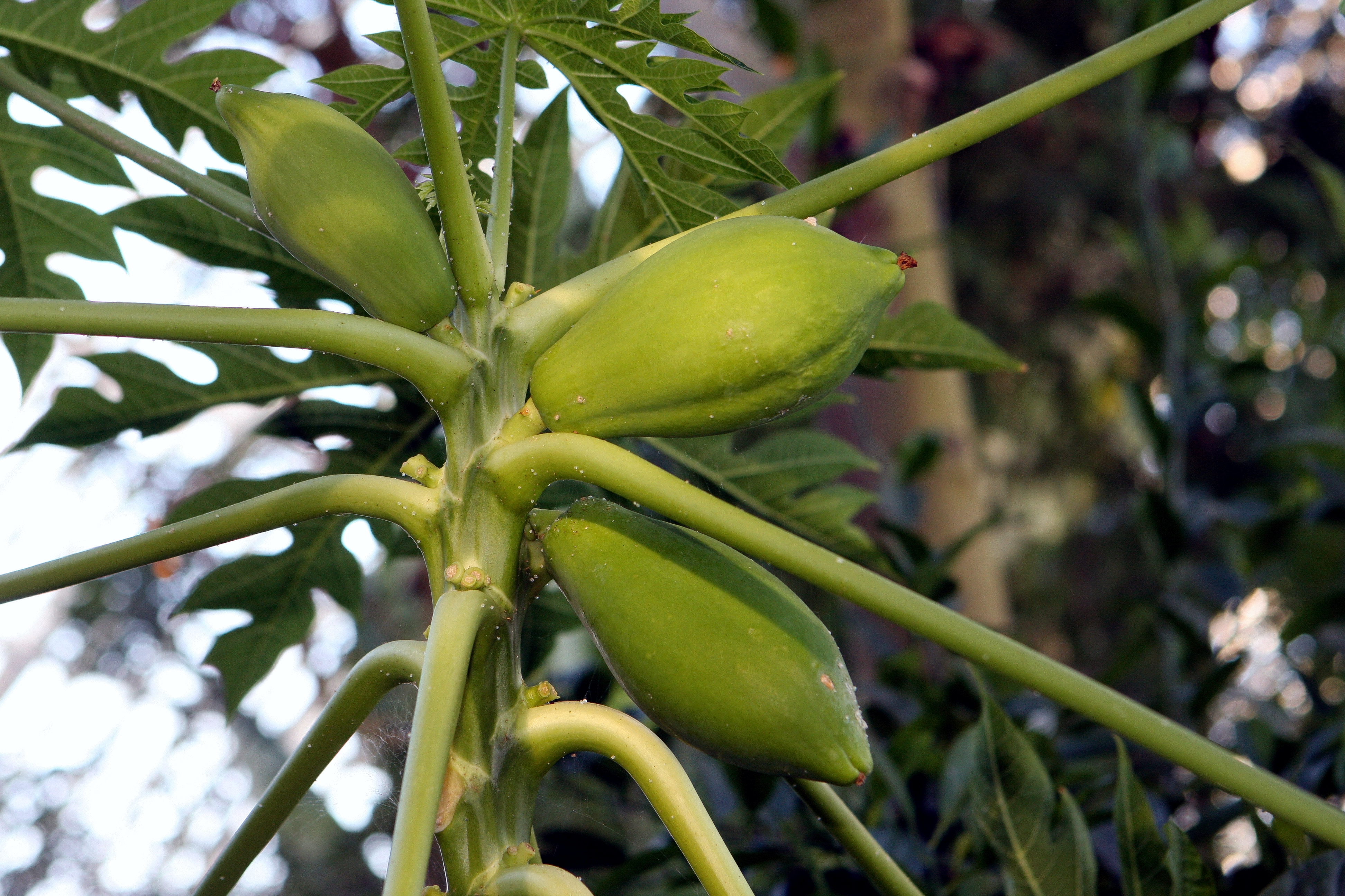 Developing fruit of the papaya tree